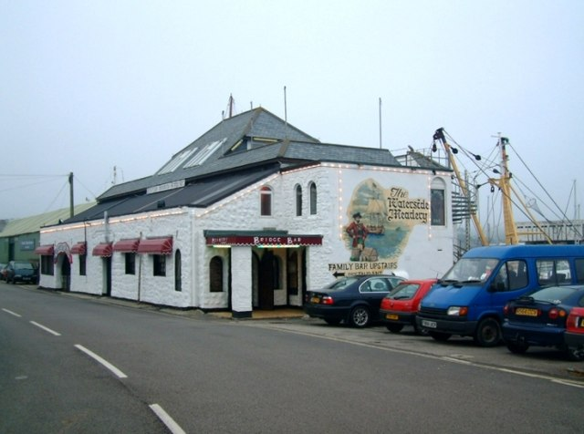 The Waterside Meadery, Penzance. This is my favourite restaurant in Penzance !! A meadery is a traditional Cornish eating place, usually very dark and cosy, and usually serving very good food, and even better Cornish mead. This one is situated at the entrance to the Lighthouse Pier in Penzance, from which the Scillonian III travels to the Isles of Scilly most days. This building will I am sure be familiar to anyone who has sailed from here.